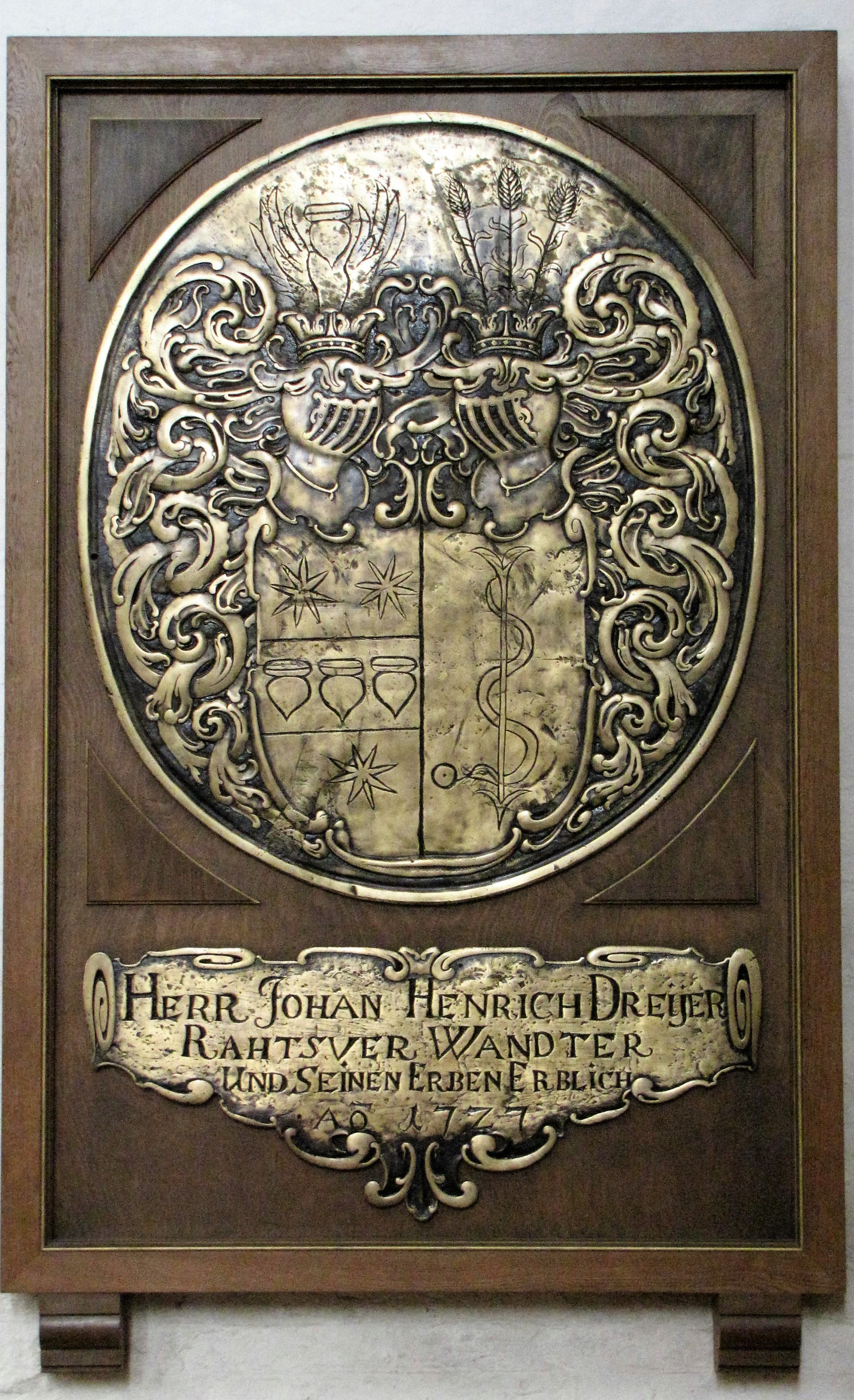 Brass parts of the ledger stone of Johann Heinrich Dreyer in St. Marien